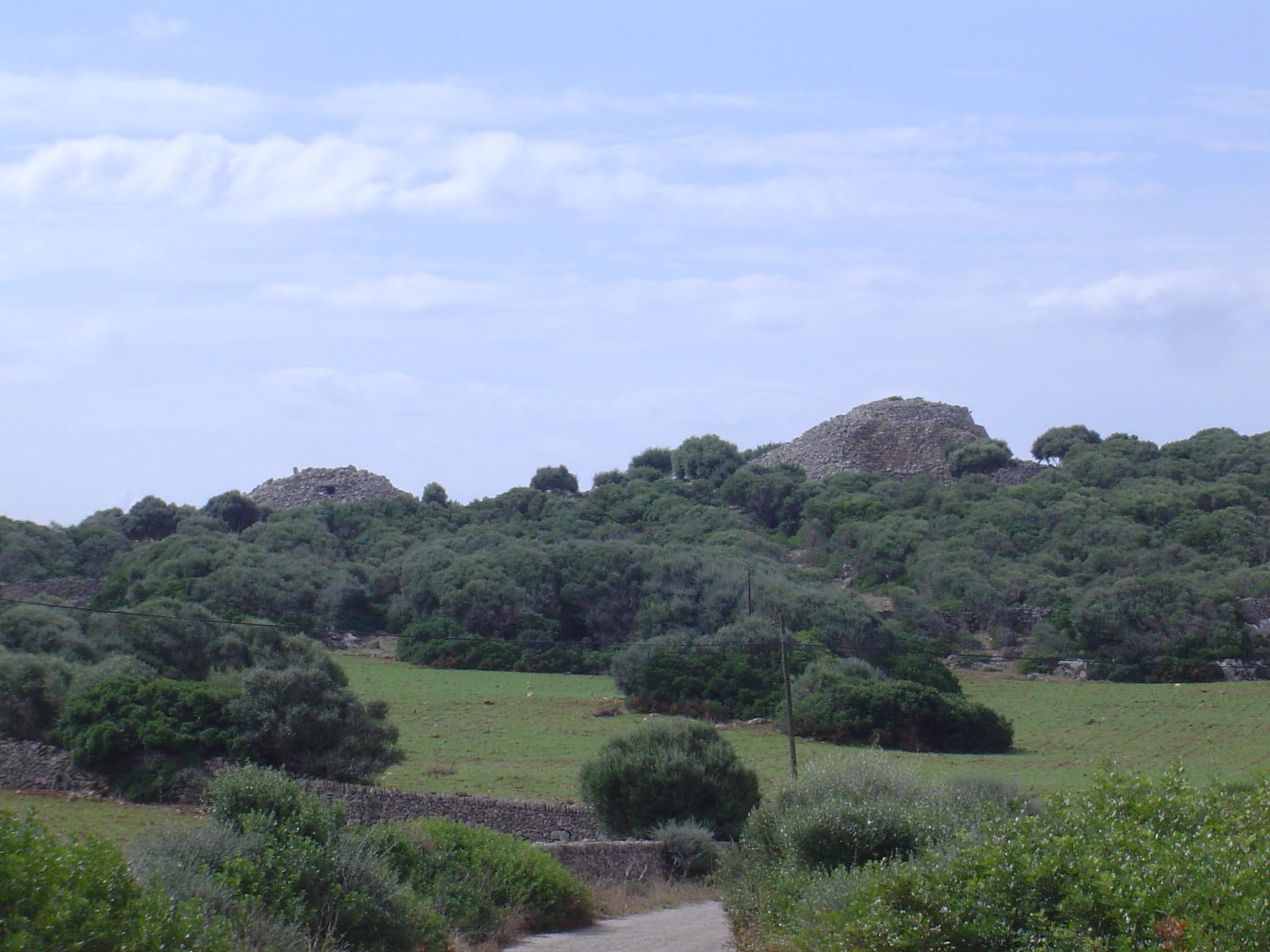 View of the promontory about what was built the talaiòtic village of Torre d'en Gaumés. Two of the talayots can be observed.